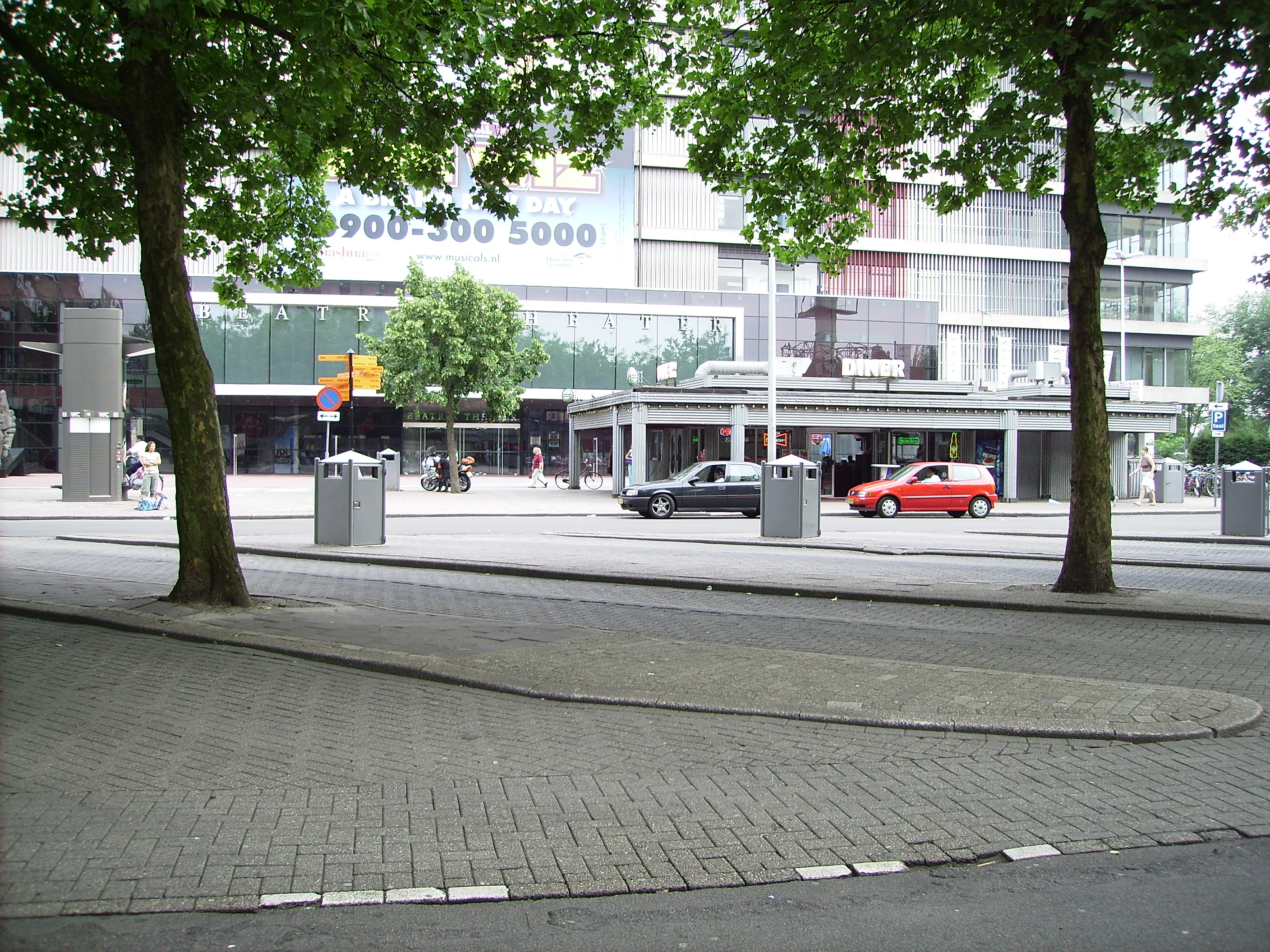 The Jaarbeursplein square in Utrecht, The Netherlands. Visible are the Beatrix Theater and the Route 66 American-style diner. Not visible at the left is the entrance to the Utrecht central railway station.